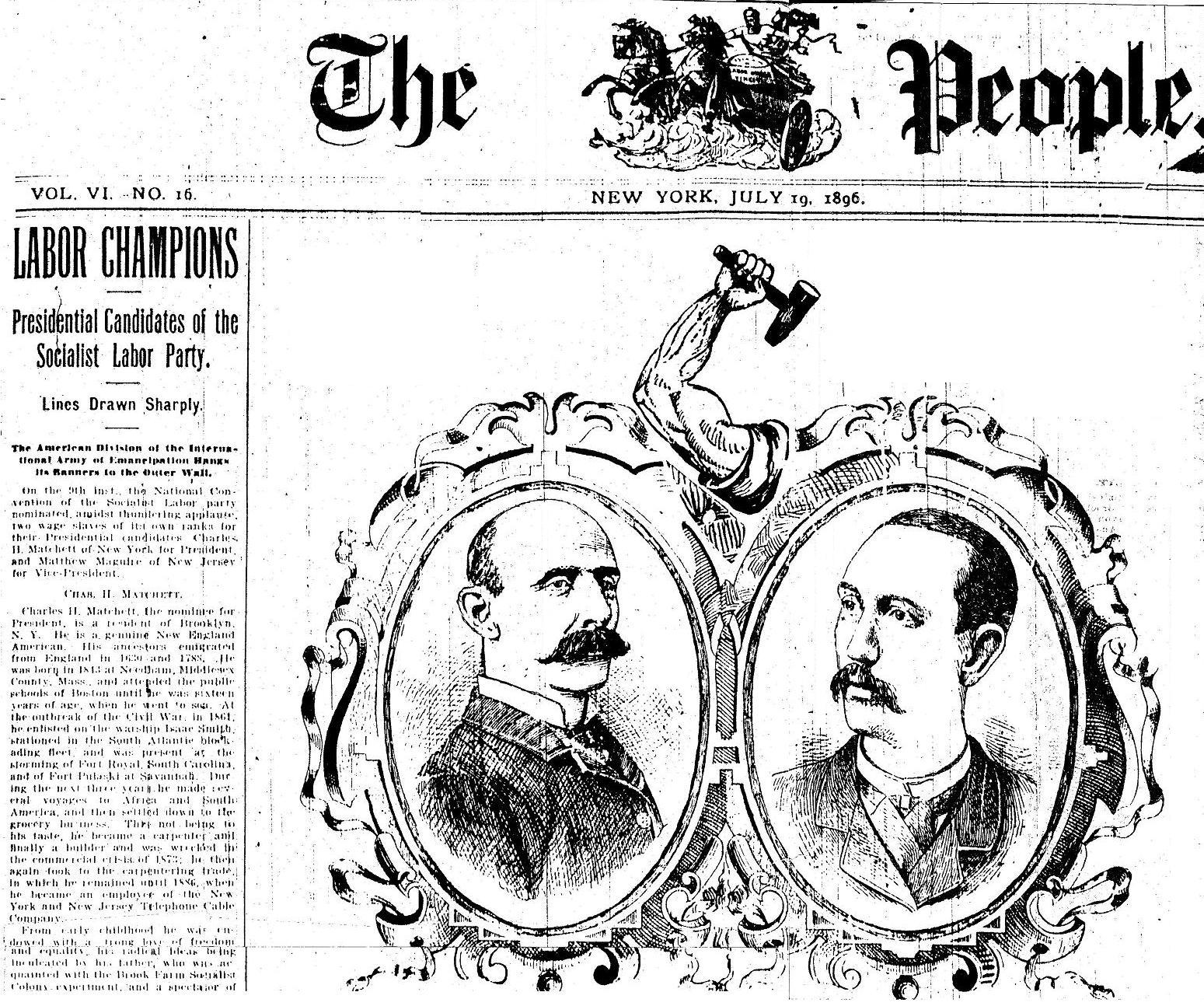 Front page of The People, 19 uly 1896